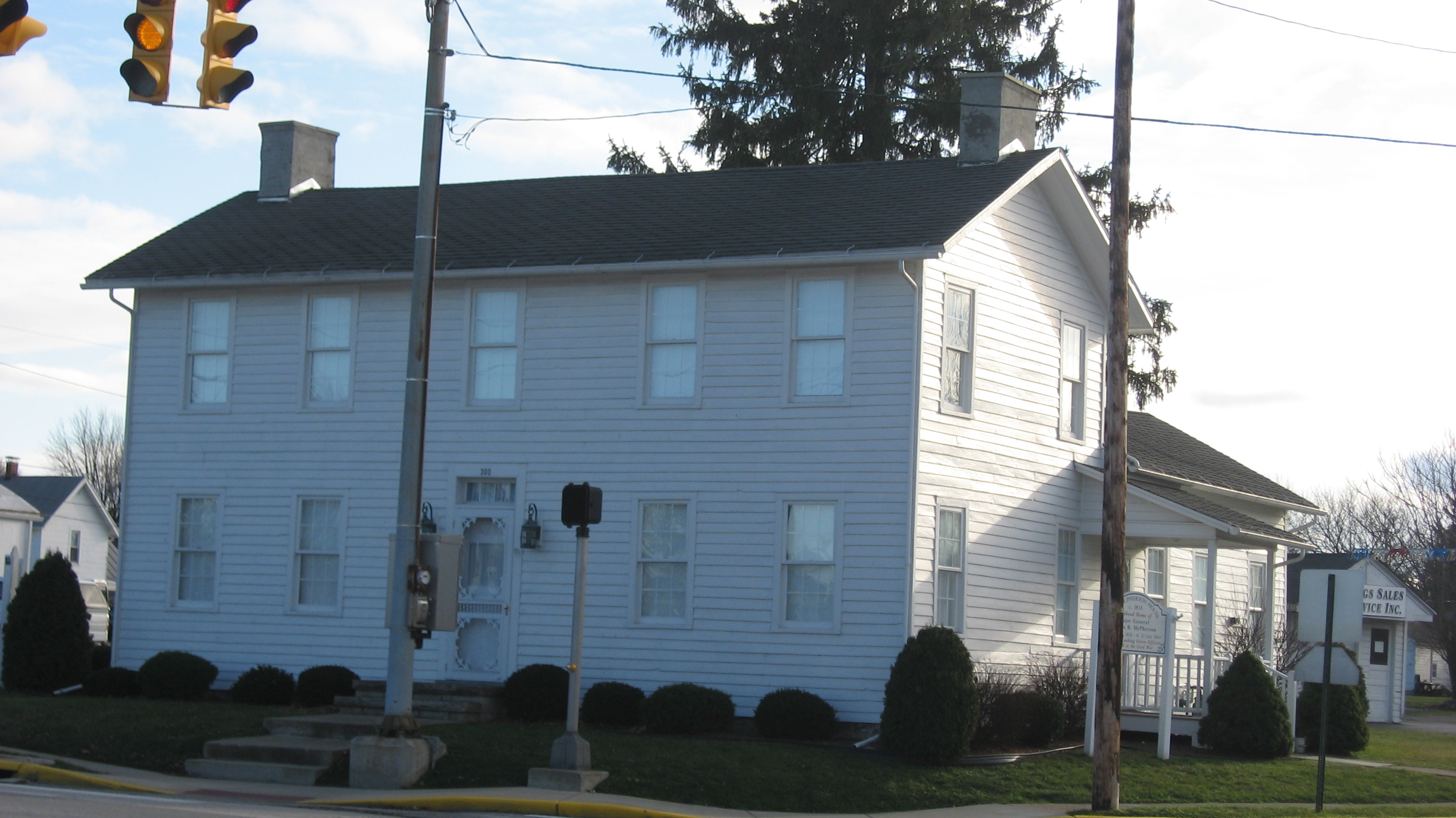 Front and western side of the James B. McPherson House, located at 300 E. McPherson Highway (U.S. Route 20) at the State Route 101 junction in Clyde, Ohio, United States. Built in 1831 and the home of James B. McPherson, it is listed on the National Register of Historic Places.